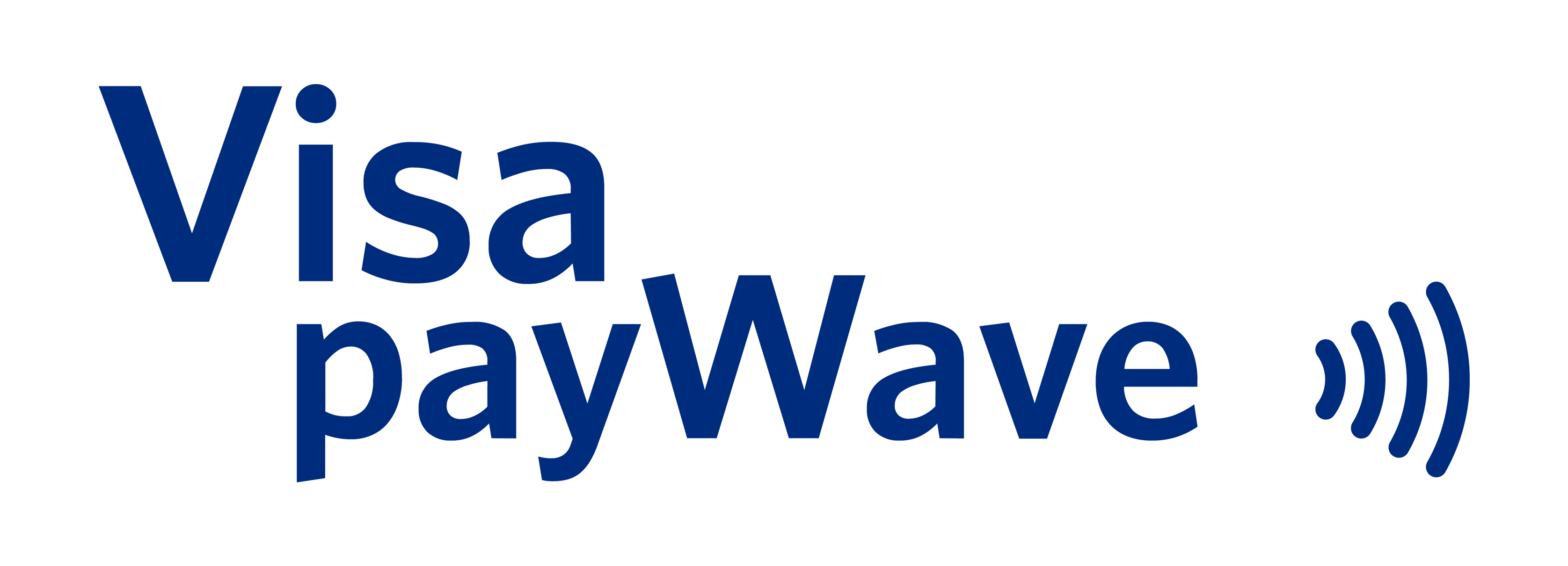 Visa payWave logo